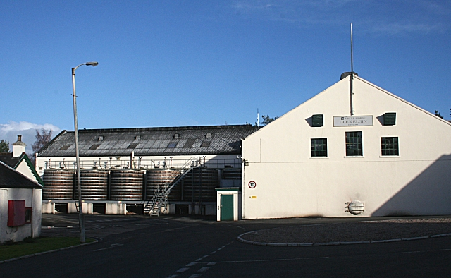 Glen Elgin Distillery One of the many distilleries owned by Diageo. White Horse is a blend, but a single malt is also available.